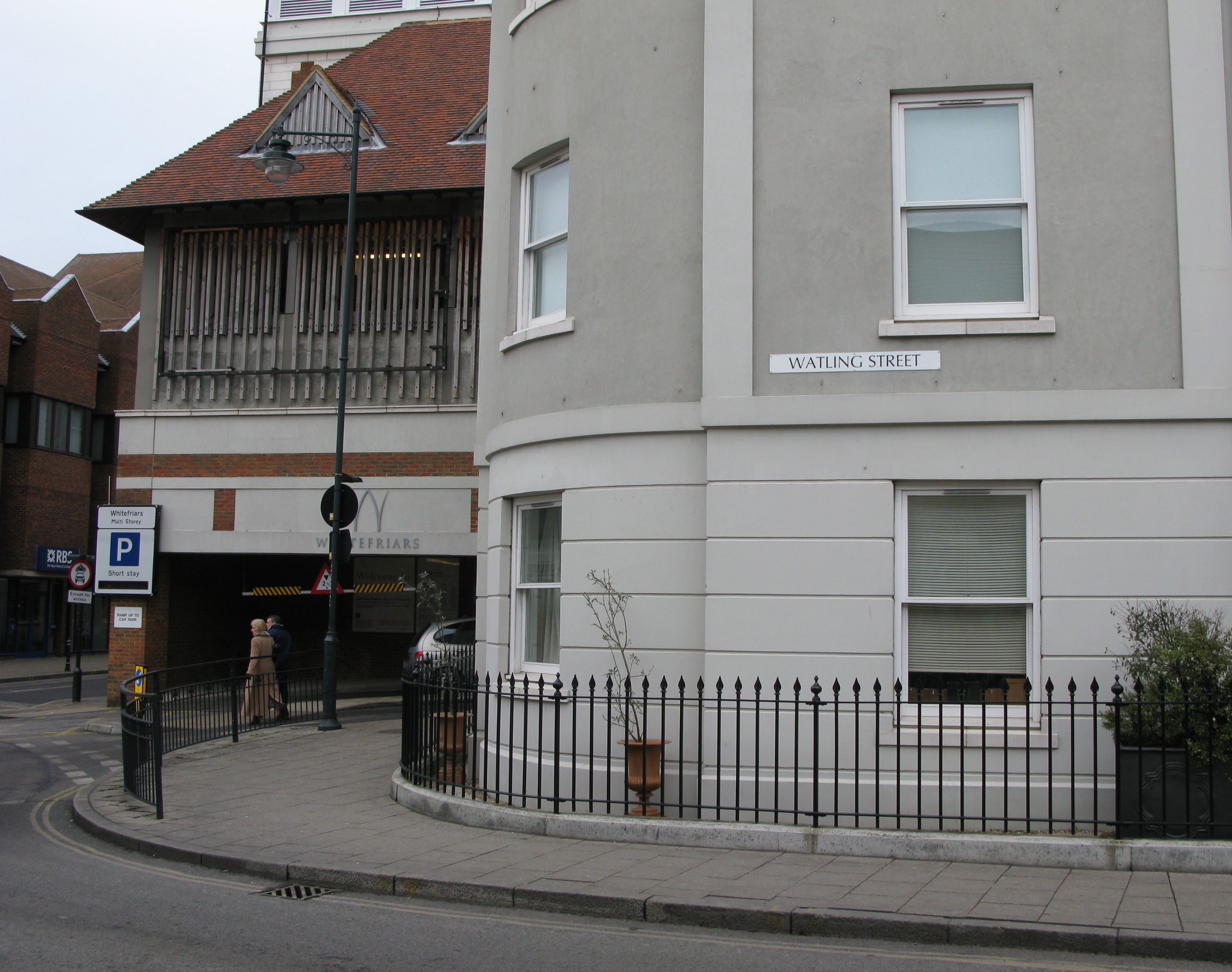 Photograph of modern Watling Street (including street sign) in Canterbury, Kent, England.